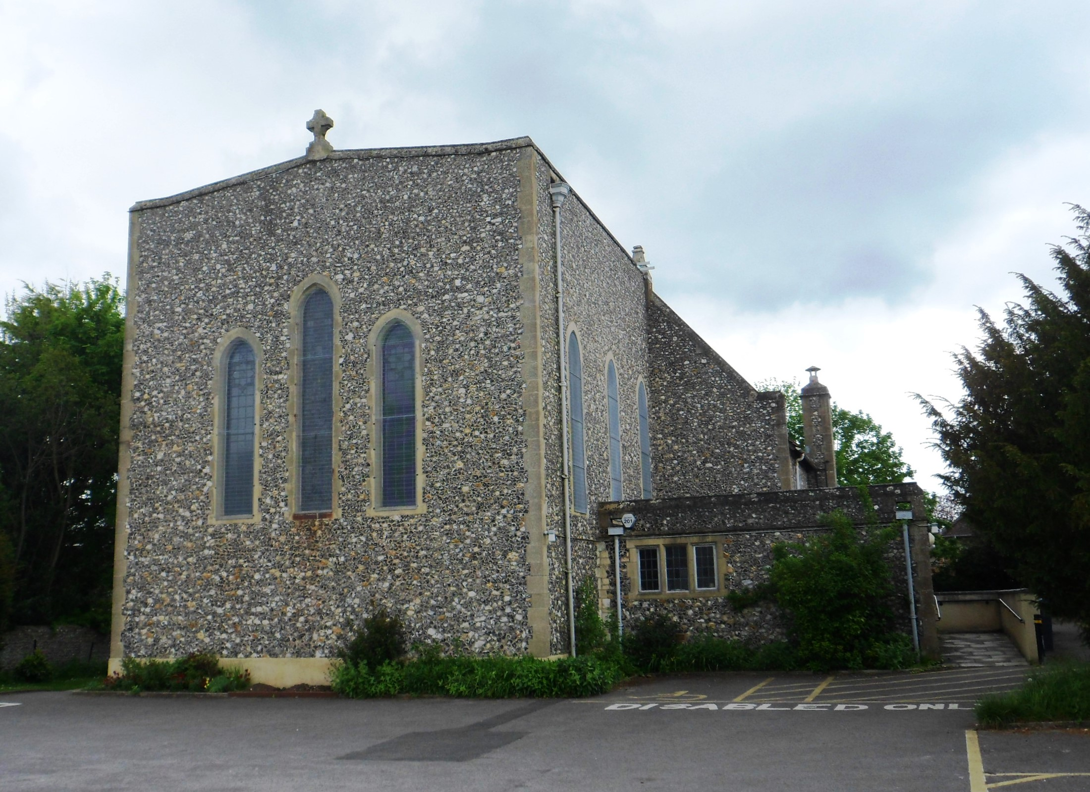 St Symphorian's parish church, Durrington, Worthing, West Sussex, England, seen from the east